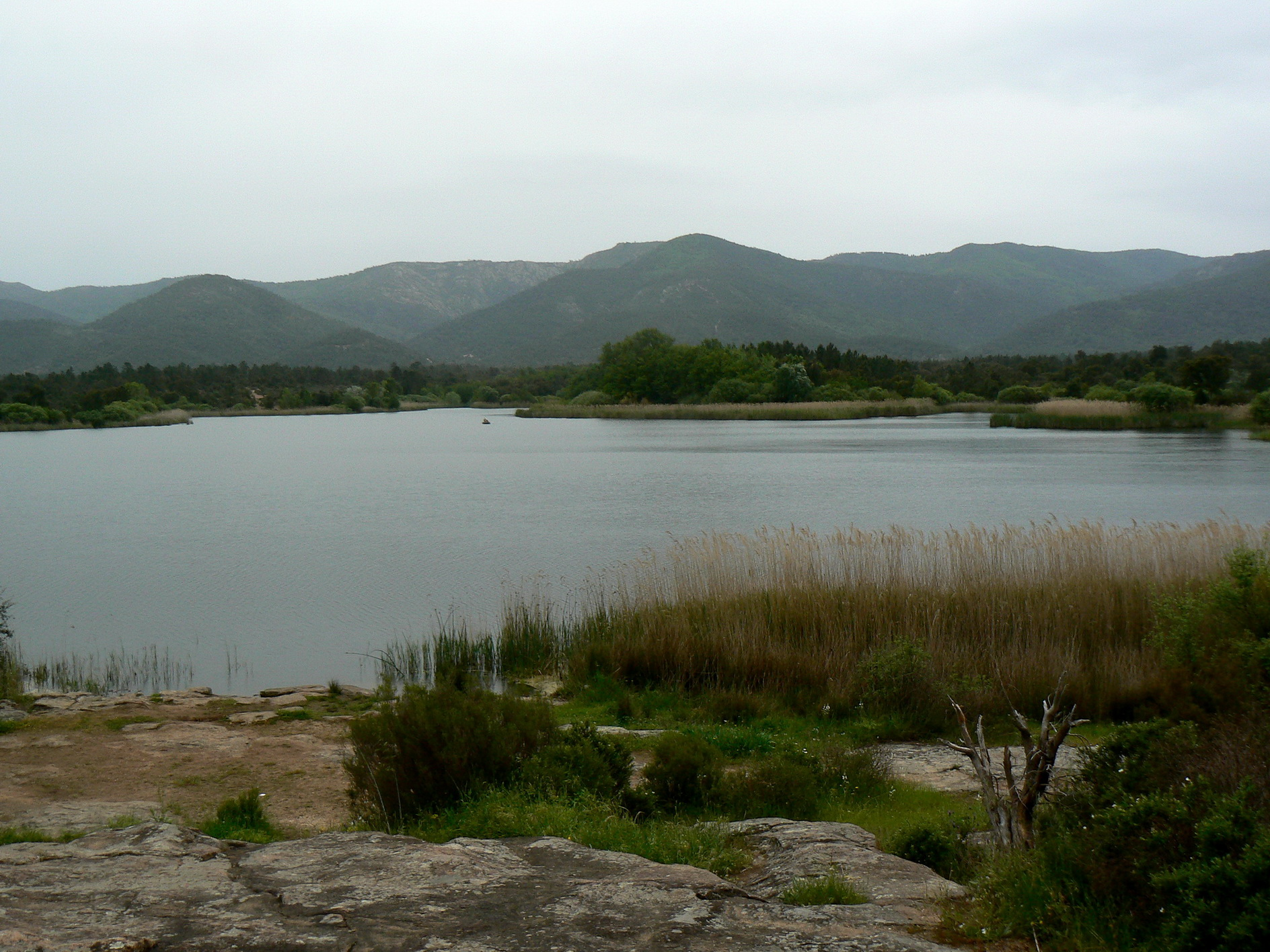 Lac des Escarcets, Plaine des Maures, Var, France